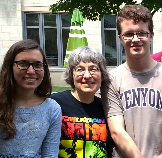 Photo of Joan Slonczewski with students